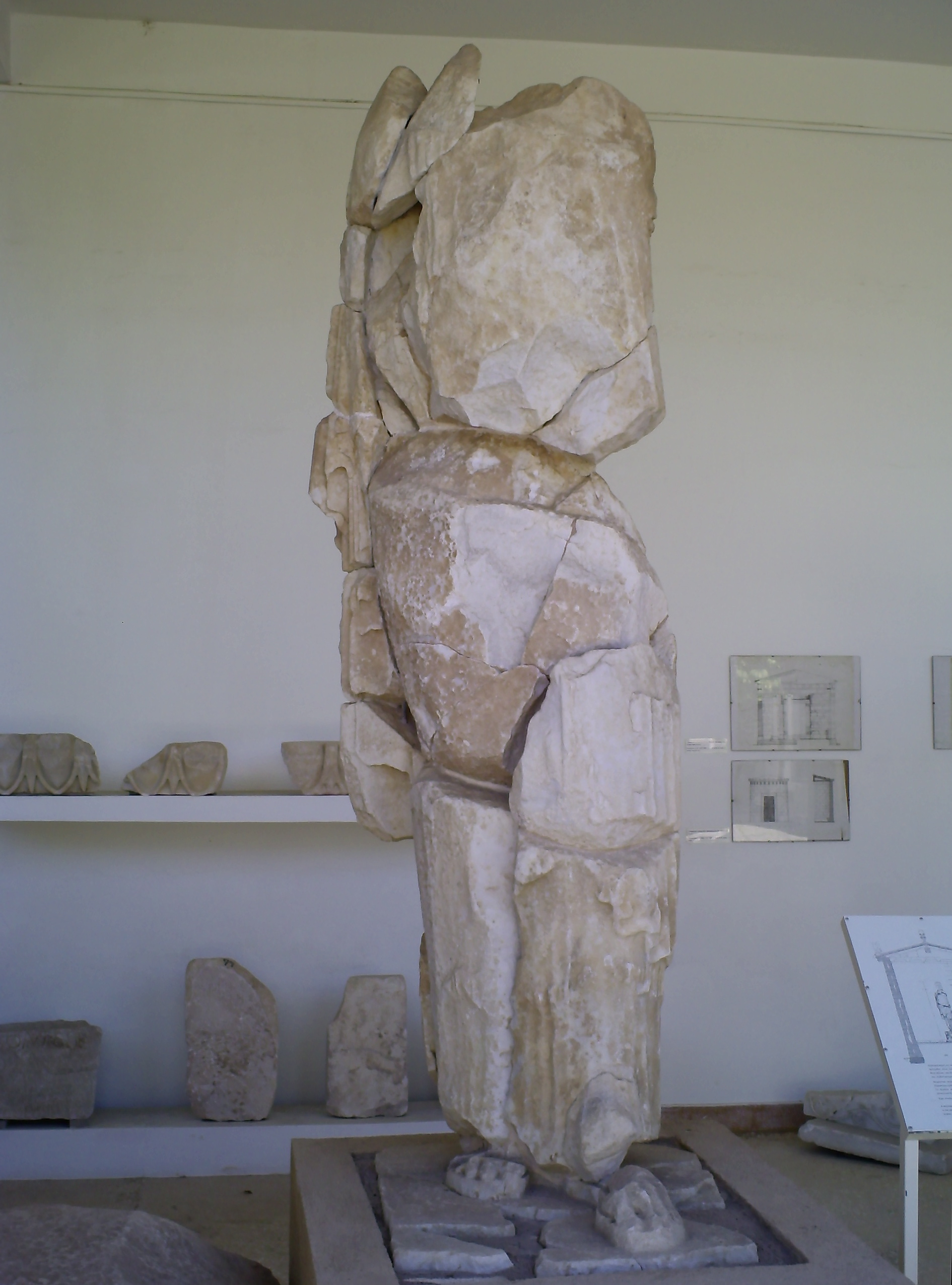 Archaïc sculpture of Artemis (490-480 BC). Found between the 19th and the 1970's in 41 pieces near the temple of Apollon Delios, north-east of Parikia (Paros). Paros marble. Height : 2,74 m (3,10 with plinth).